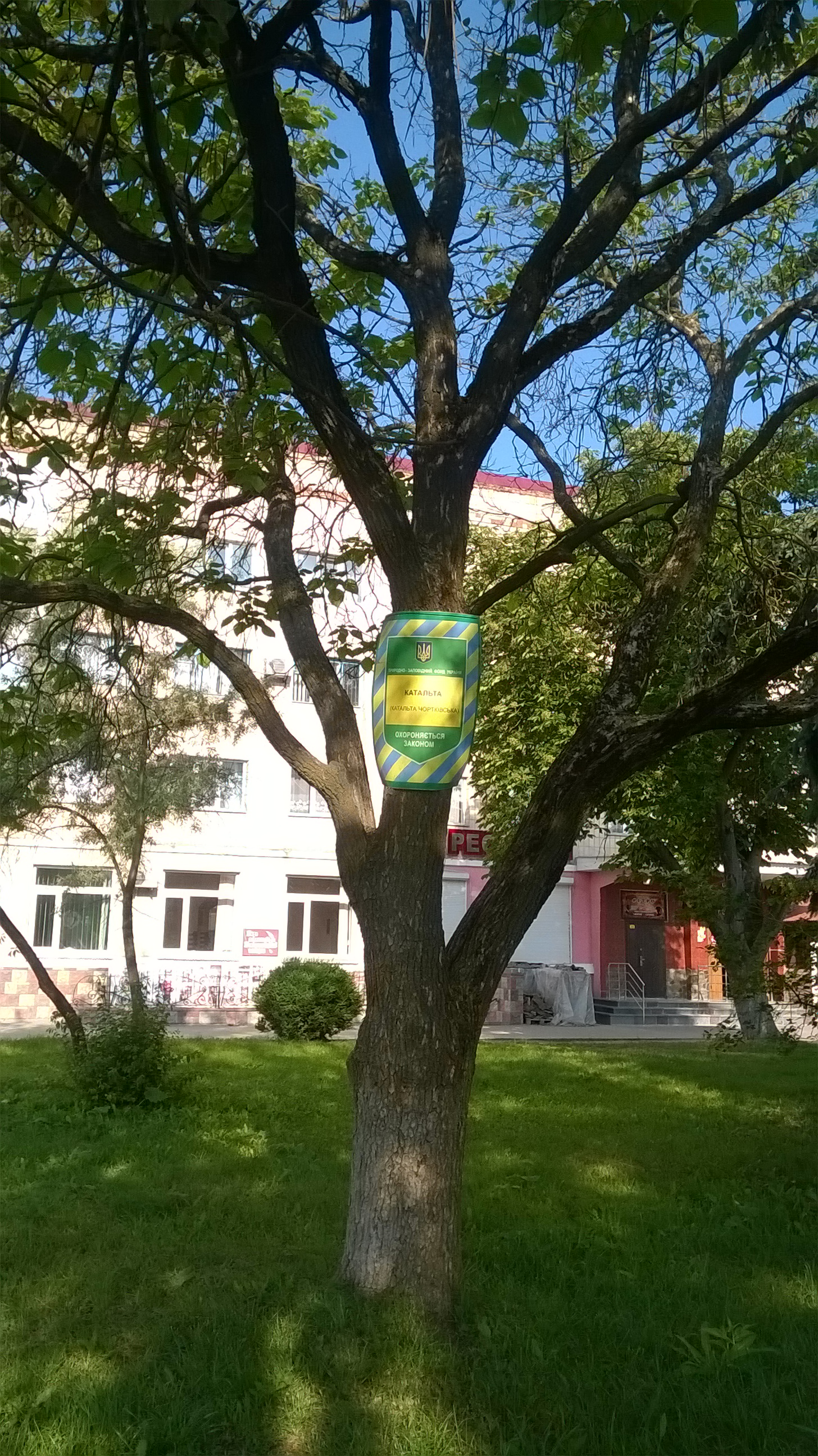 Заповідна Катальта (Чортків)